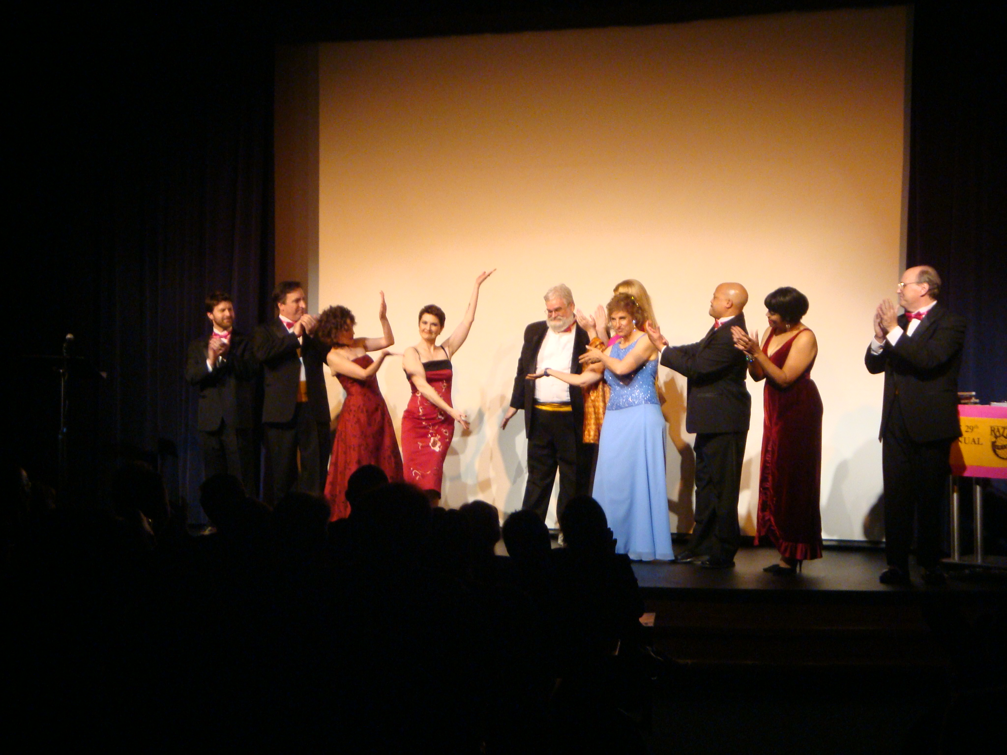 29th Razzie Awards